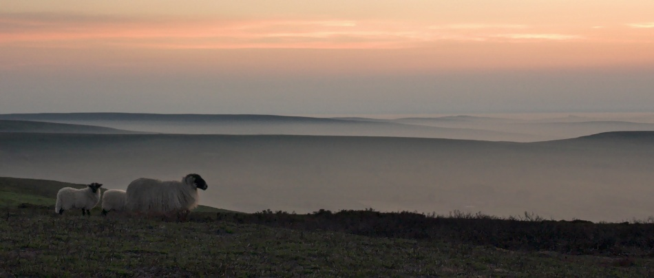 Photo: Colin Grice